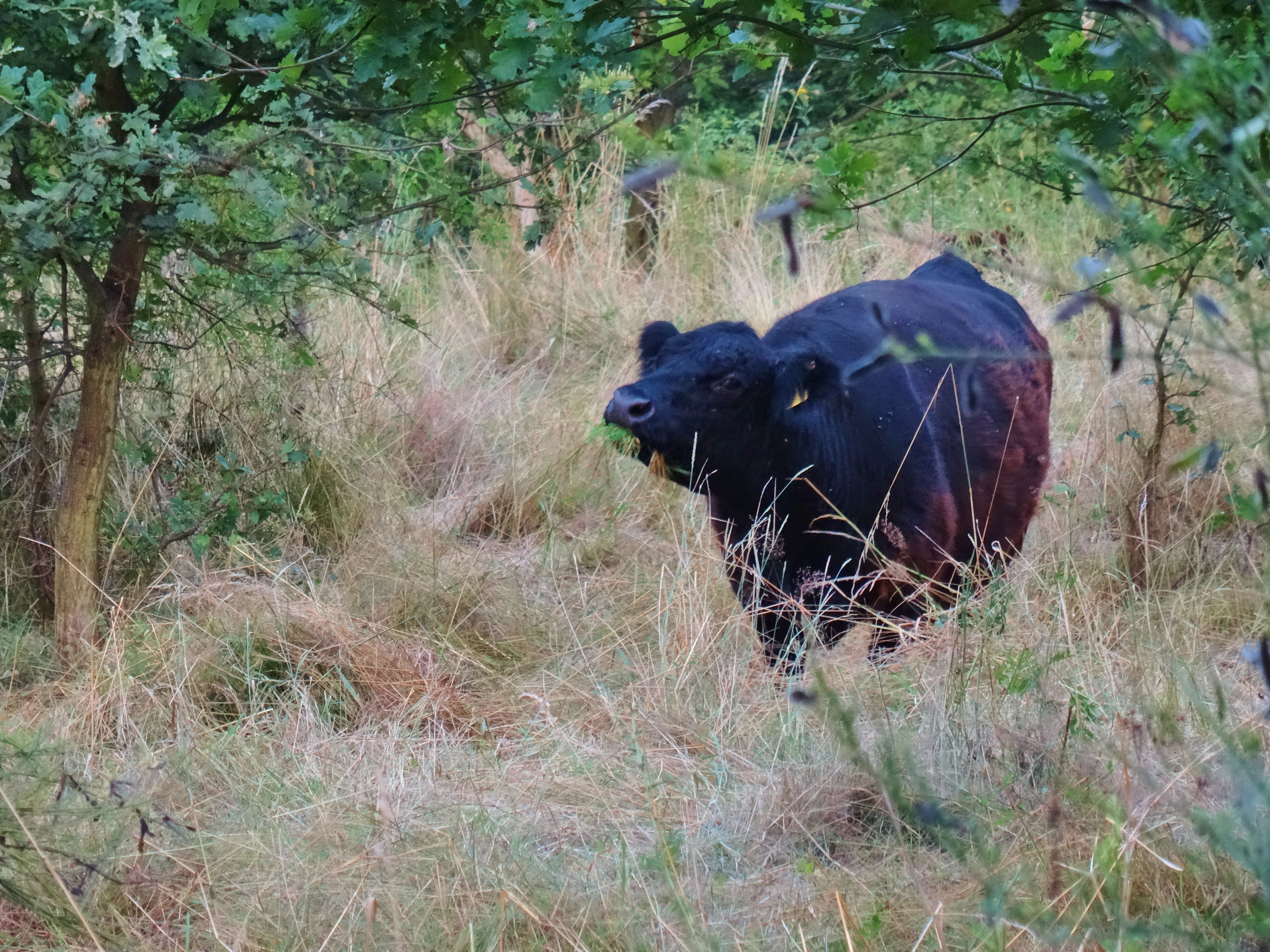 Kohlberg Pirna